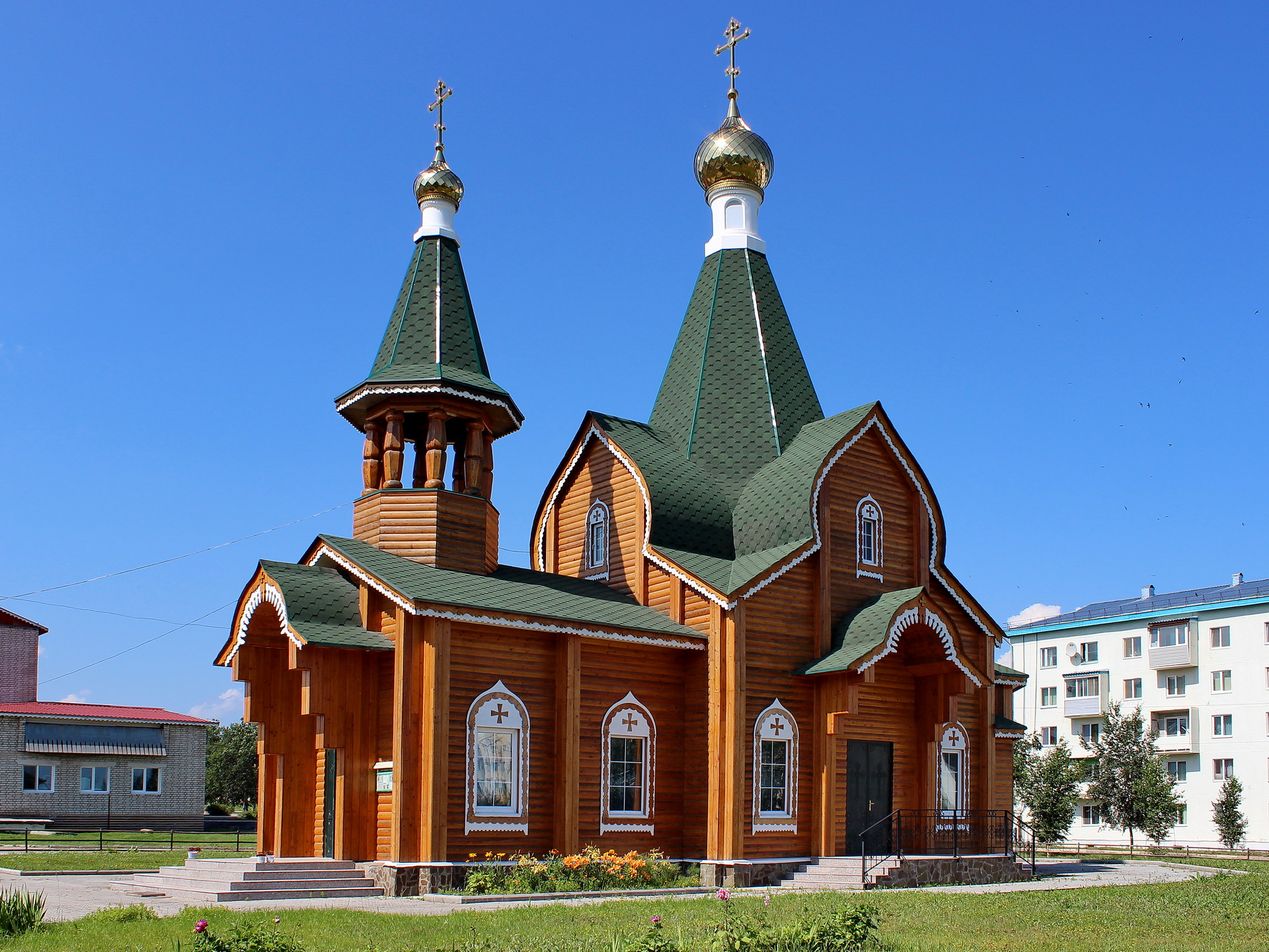 Temple of St. Seraphim of Sarov in Plastun of the Arsenyev diocese. 2012.